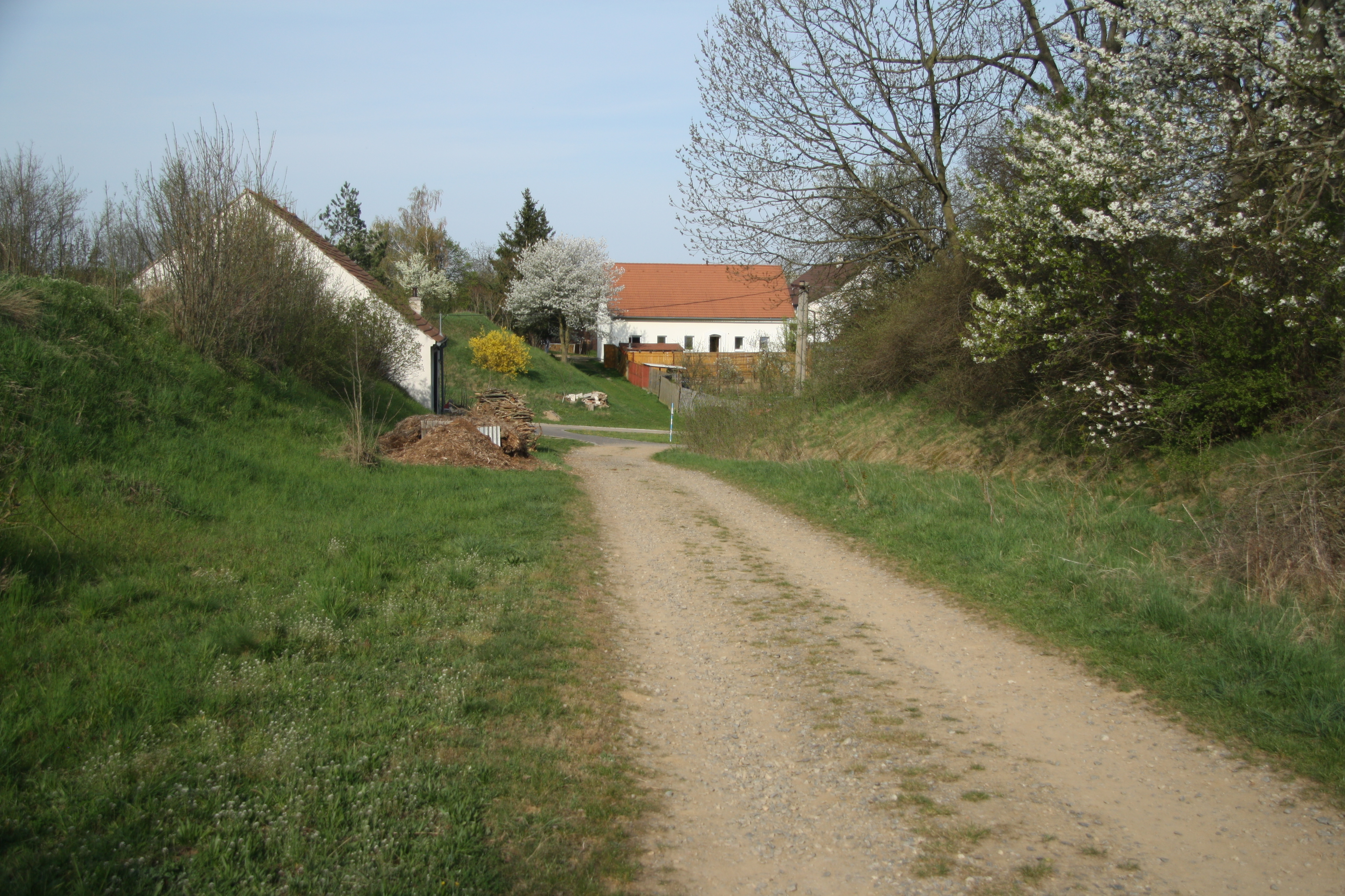 Educational Trail of Otokara Březina near Vícenice and Bohušice, Třebíč District.